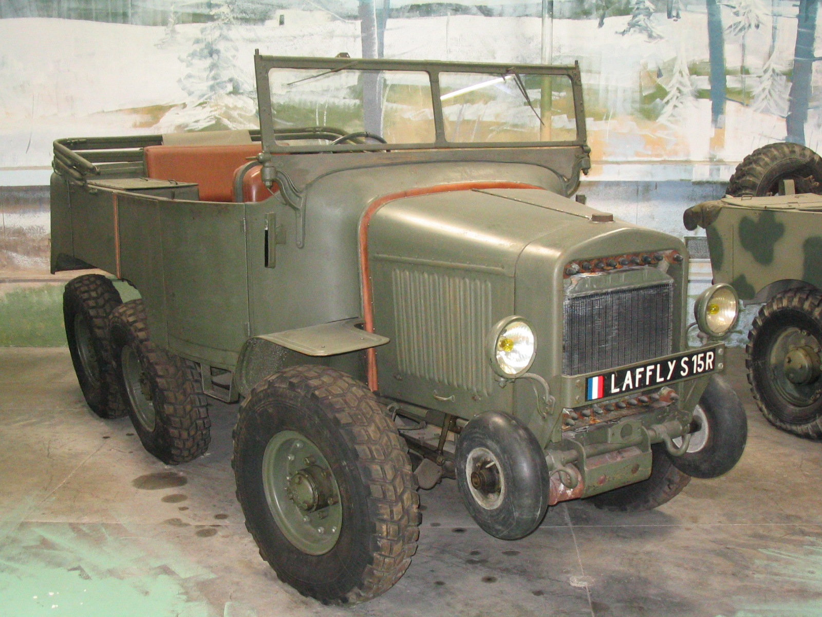 The Laffly S15R 6-wheel car on display at Saumur museum